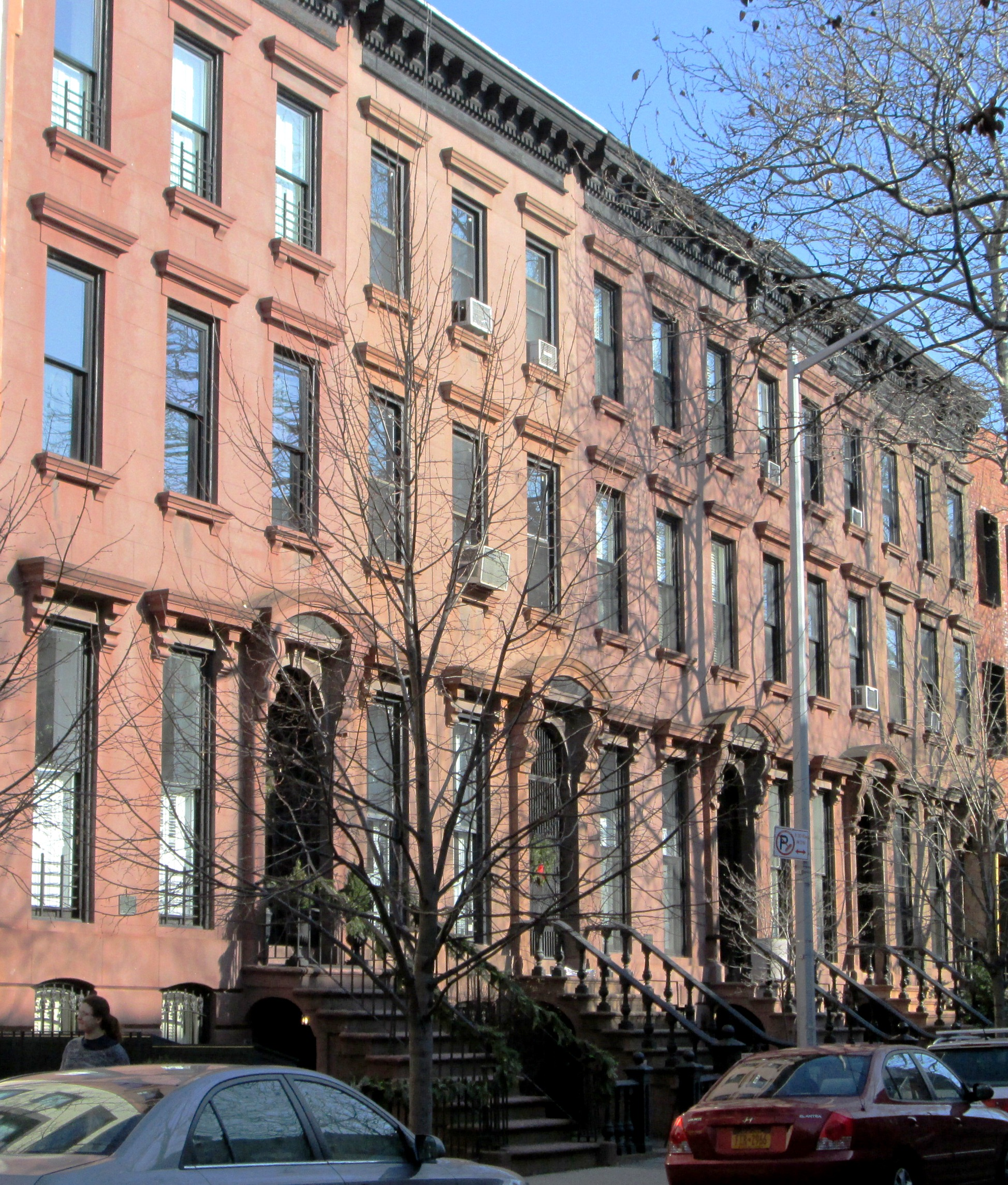 The Greek Revival and Italianate row houses at 291-299 (odd) and 290-324 (even) State Street between Smith and Hoyt Streets in the Boerum Hill neighborhood of Brooklyn, New York City were the result of the conversion of the formerly rural area into a fashionable neighborhood in the middle of the 19th century. The buildings, which were constructed between 1847 and 1874, were designated a NYC landmark in 1973 and a U.S. Historic District in 1980.